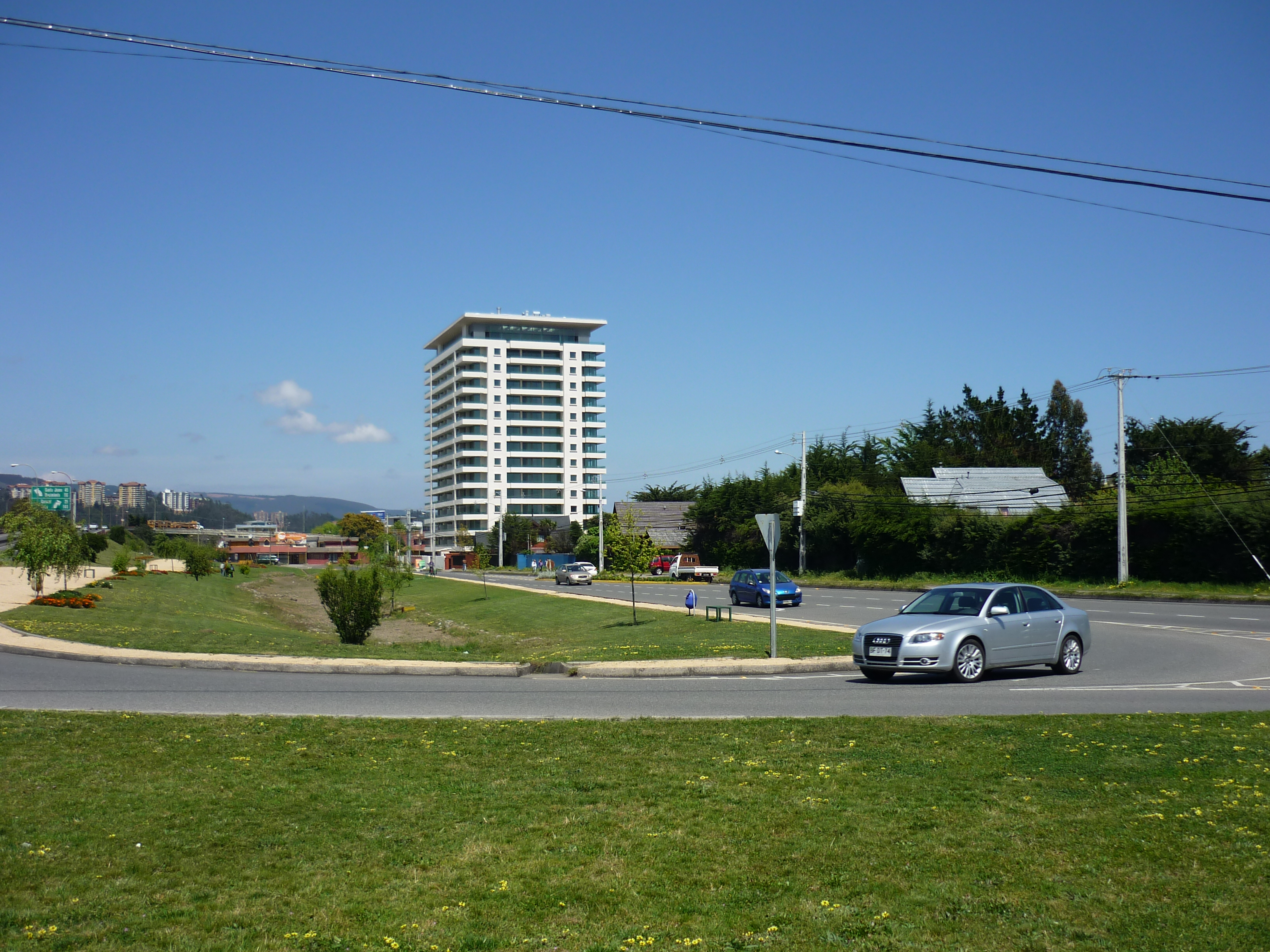 Panoramic park view of "Huertos Familiares" neighborhood in San Pedro de la Paz.